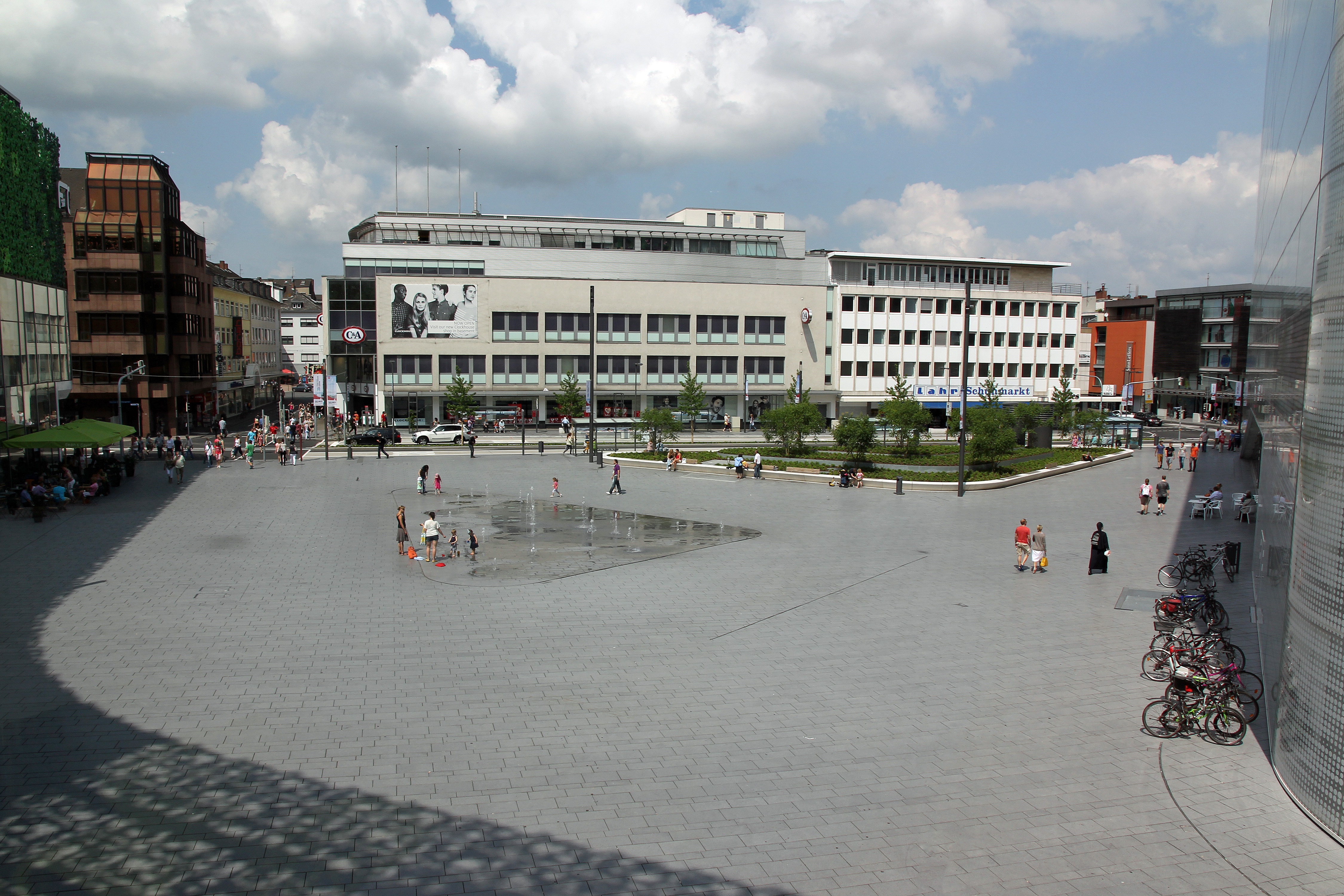 Zentralplatz in Koblenz